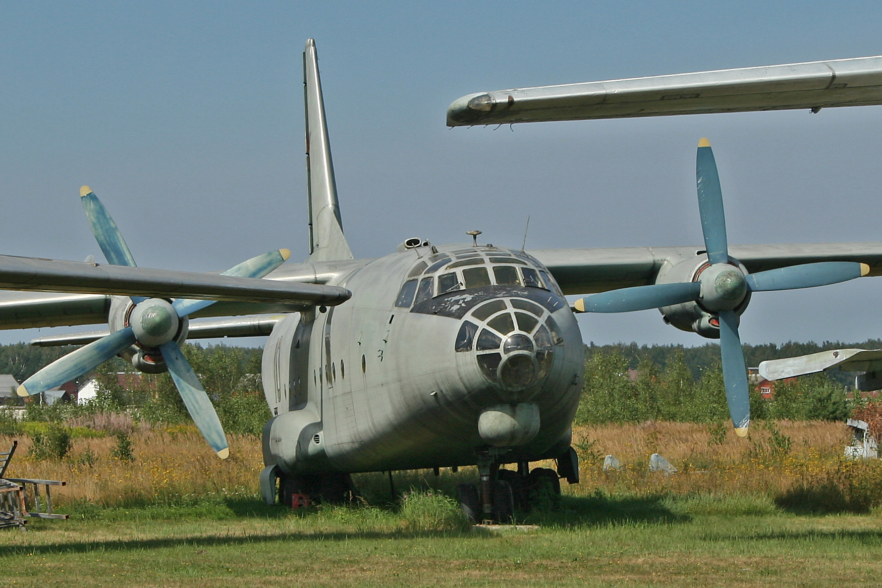 First flying in 1956, the An-8 was designed as a replacement for the Li-2 (DC-3). About 150 were built, but it has always been overshadowed by the four engined An-12. This example was built in 1959 and has been on display at Monino since May 1976. It is parked behind other aircraft, which given it's rarity is rather a shame! c/n 9340504. On display outside at the Russian Air Force Museum. Monino, Russia. 13-8-2012